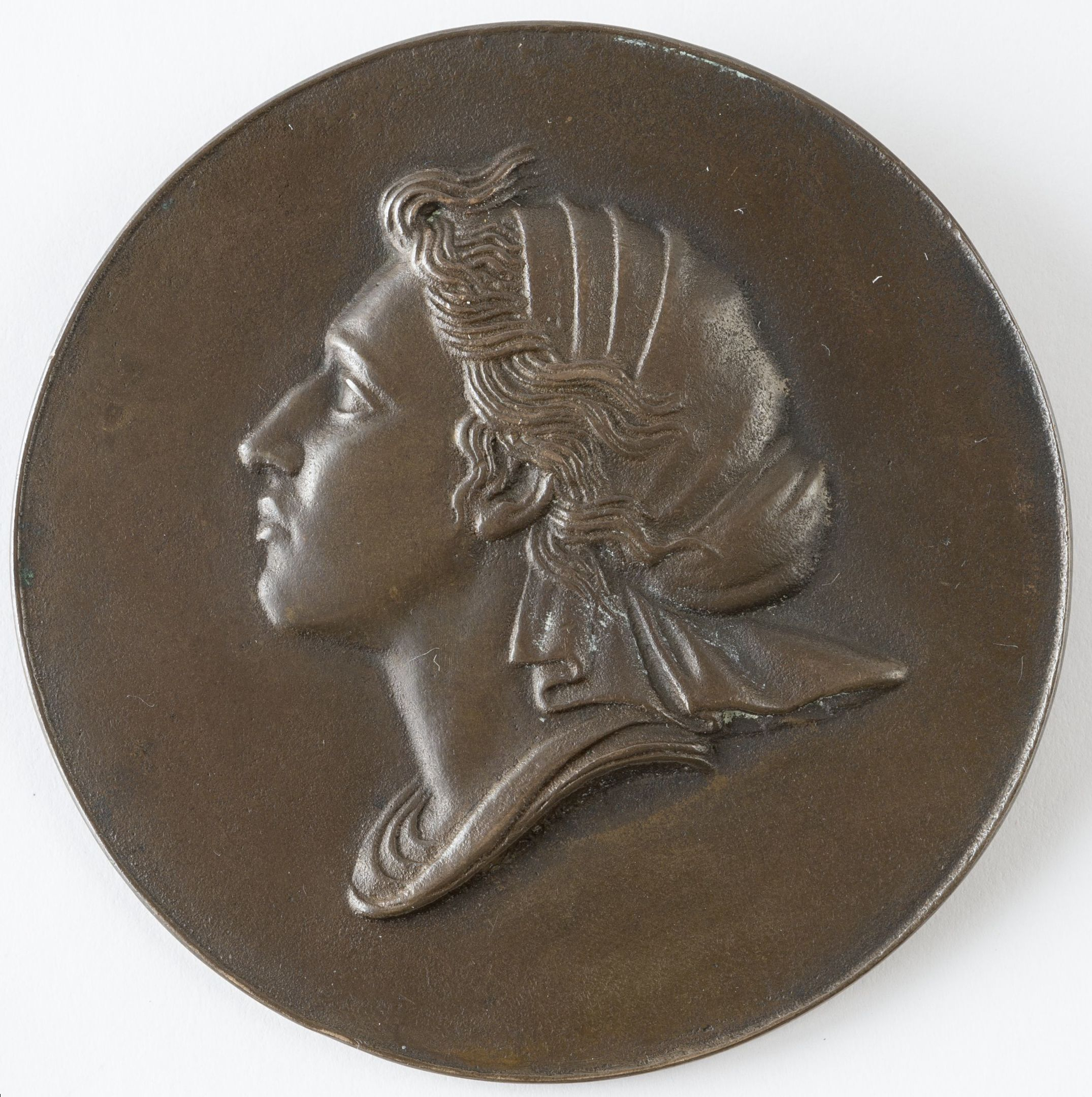 Memorial coin for the passage of the Weimar Constitution 1919 from the possession of the MP Johanna Tesch, rear view, coin, metal, minted, 31.7.1919, the rear view shows the idealized portrait of Marie Juchacz, Property of Sonja Tesch. Published in Dorothee Linnemann (ed.): Damenwahl! 100 Jahre Frauenwahlrecht. Begleitbuch zur Ausstellung. Societäts-Verlag, Frankfurt am Main 2018, ISBN 978-3-95542-306-3, p. 149.